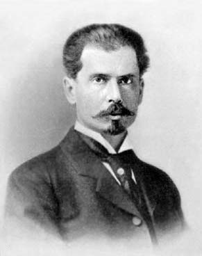 Sergei Nikolaievich Winogradsky (1856-1953)